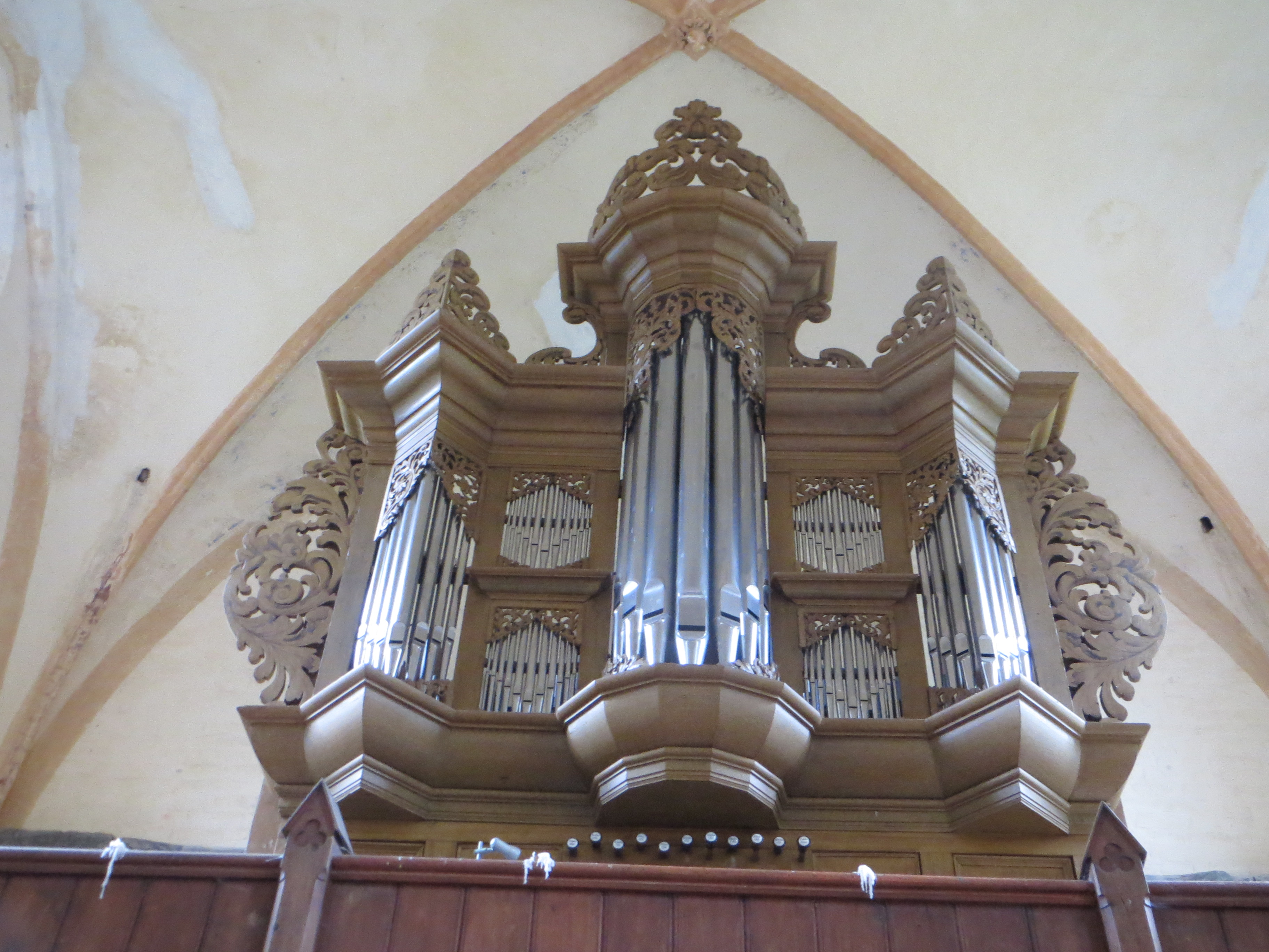 Kirche Zurow